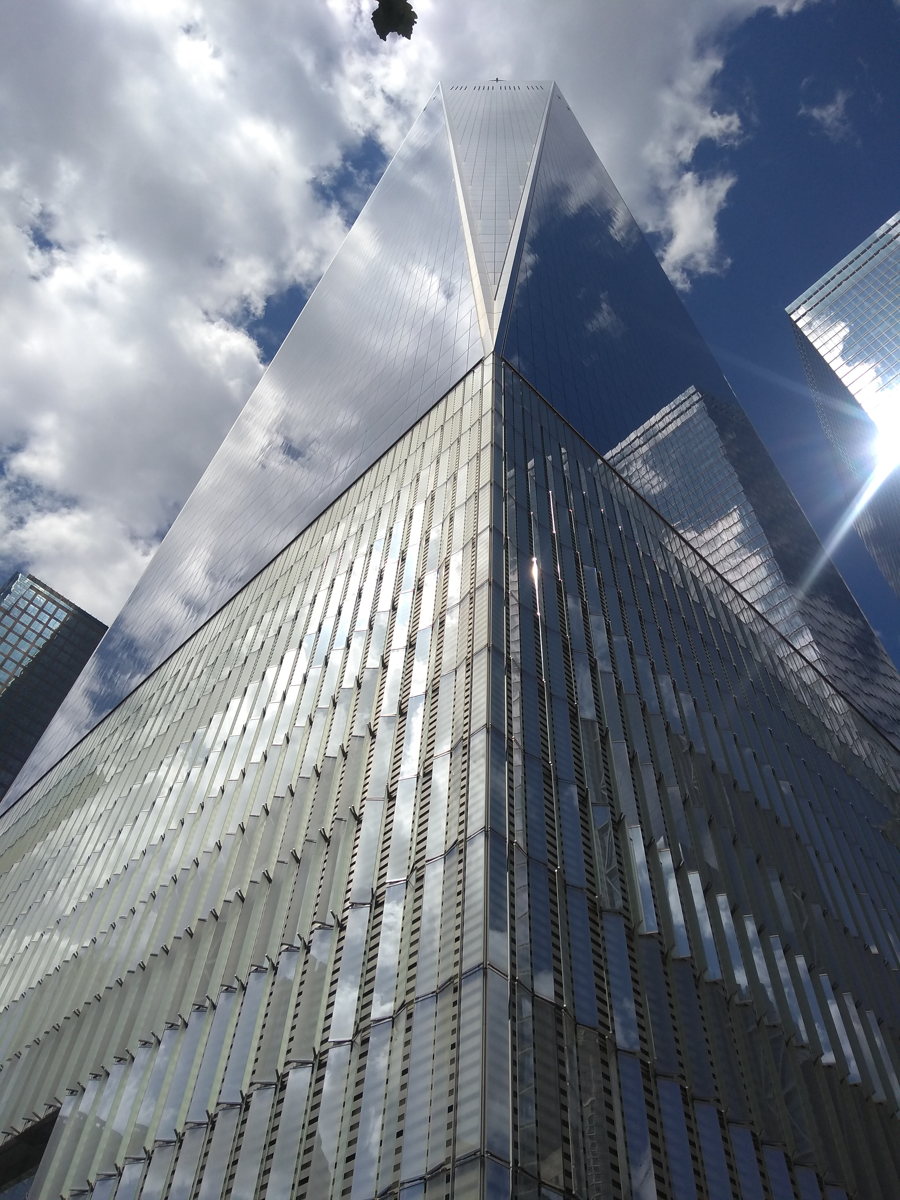 One World Trade Center